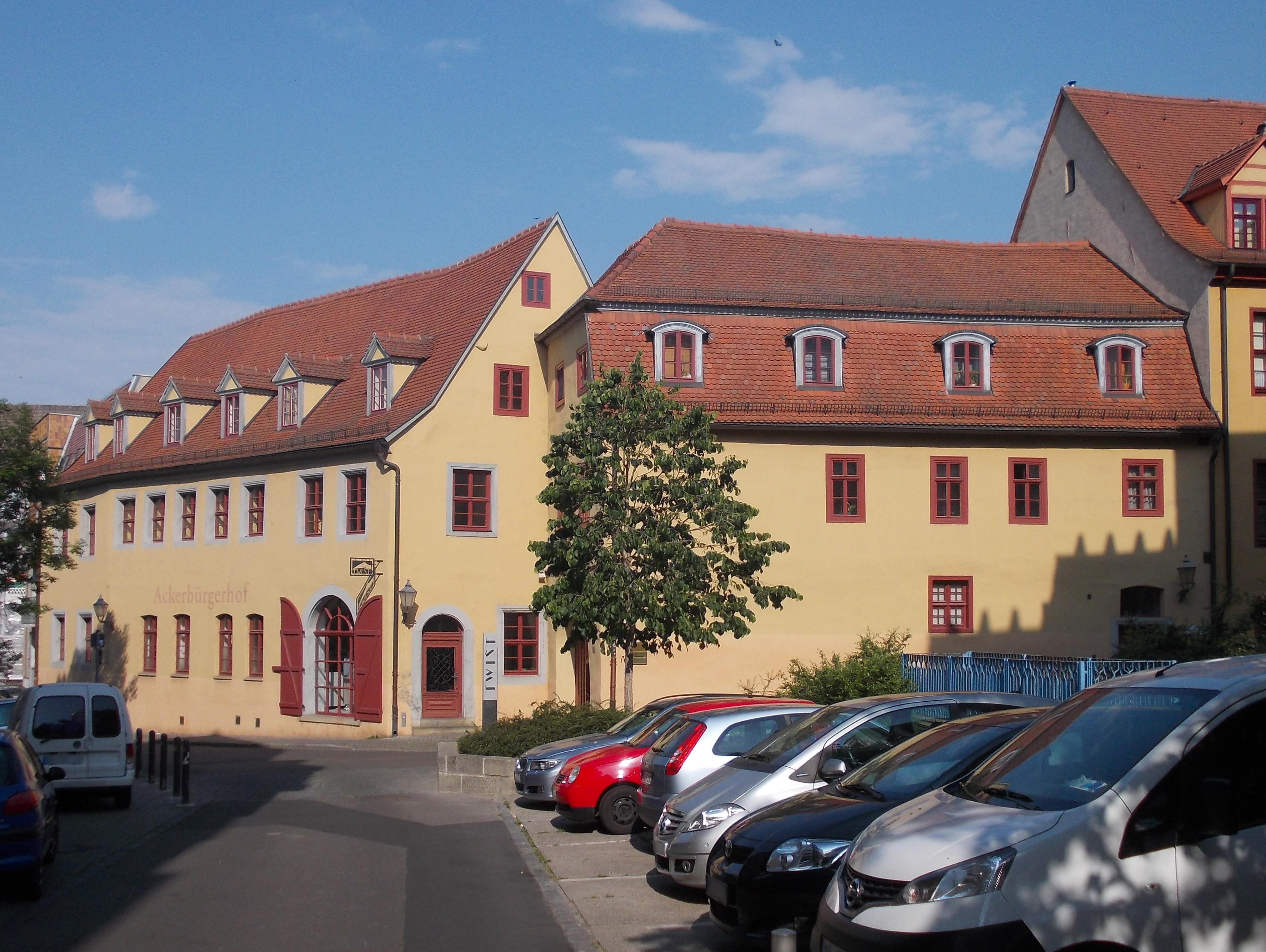 Ackerbürgerhof in Halle/Saale (Saxony-Anhalt)